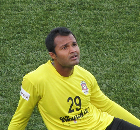 Arindam Bhattacharya